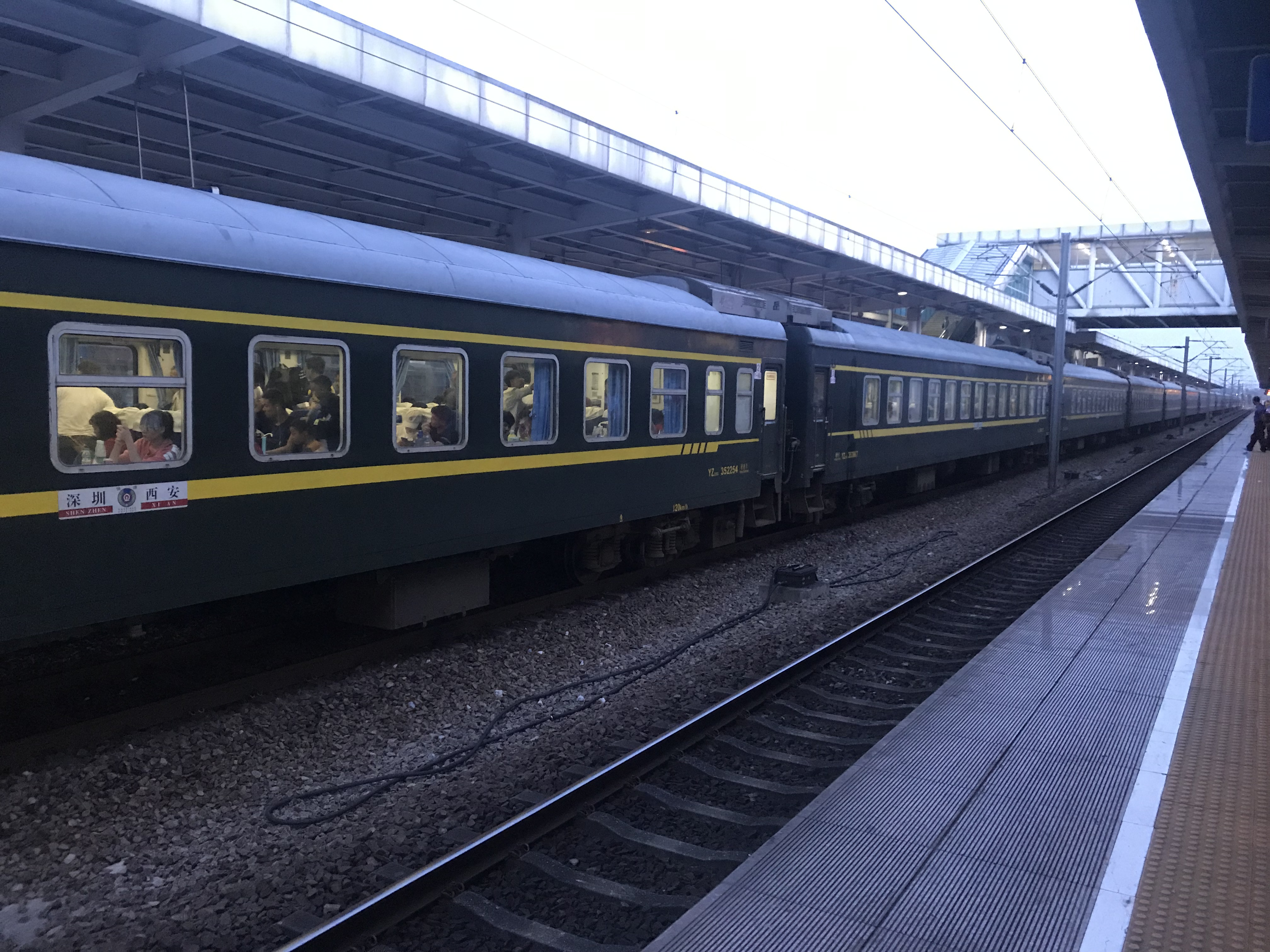 201906 Coaches of K445 at Ji'an Station